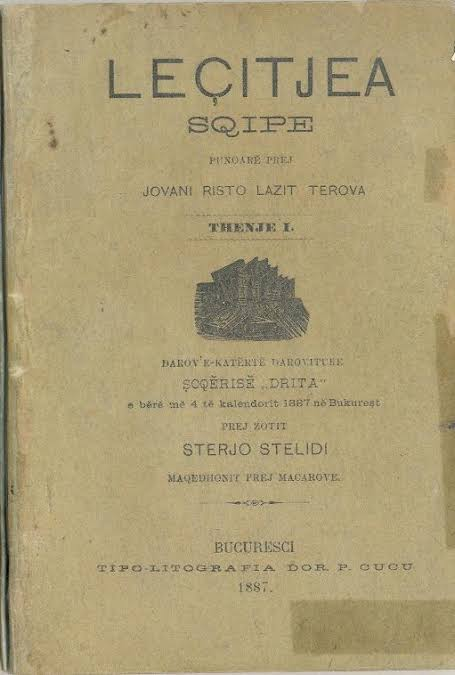 An Albanian schoolbook. It was issued by the Albanian Community in Bucharest.